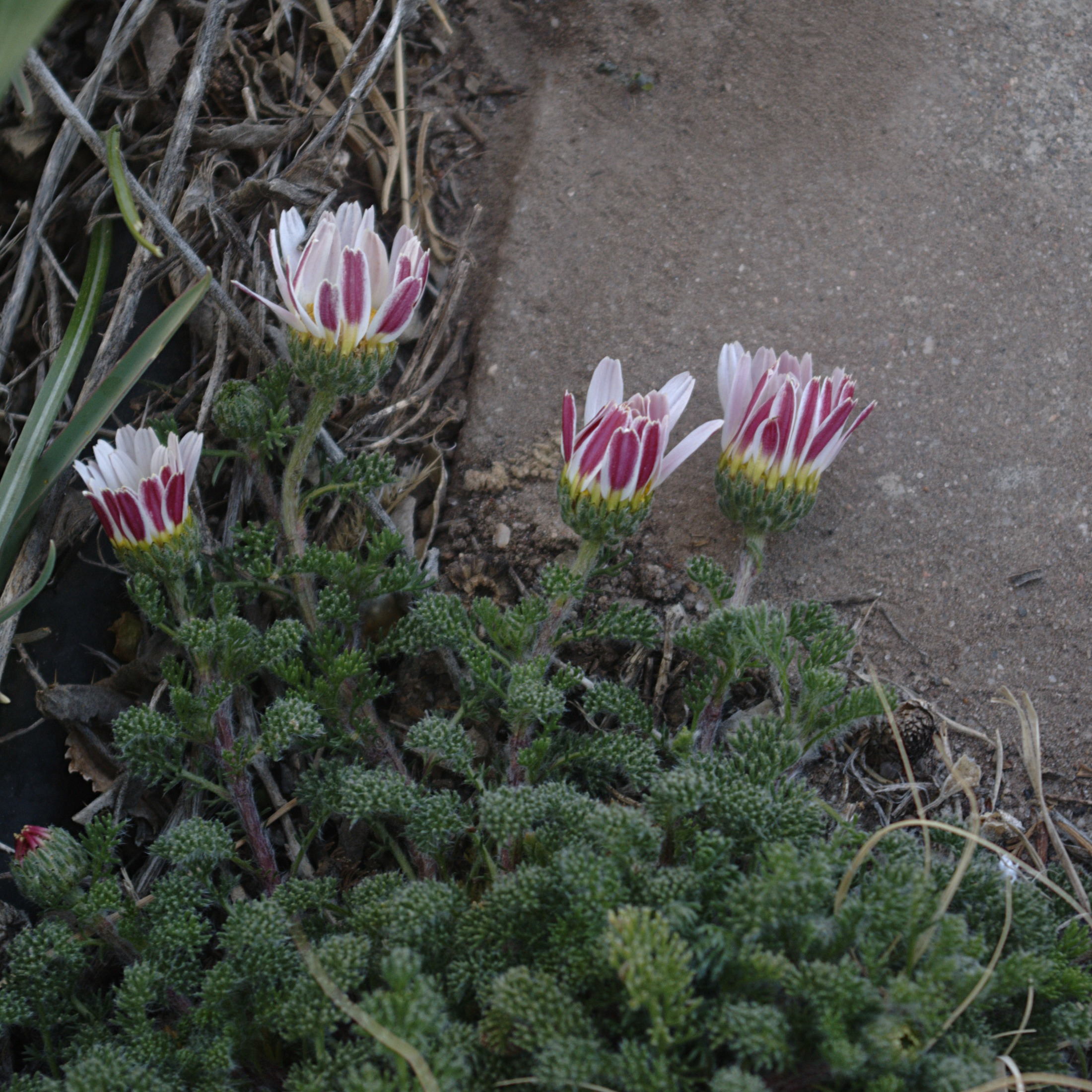 Detail of Anacyclus pyrethrum var. depressus or Anacyclus depressus, mat daisy or Mount Atlas daisy, showing flowers closed in the evening. My garden, Española, New Mexico.